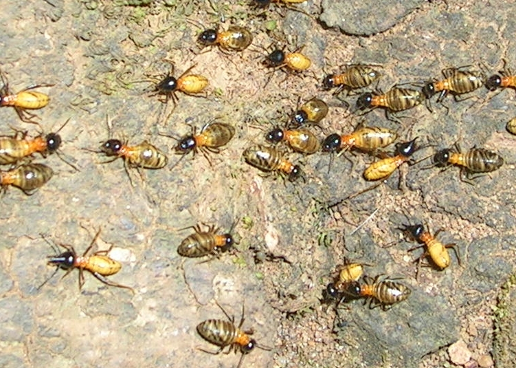 Termites, unknown species with Nasutes Wynaad, Western Ghats Photograph by L. Shyamal, 2006